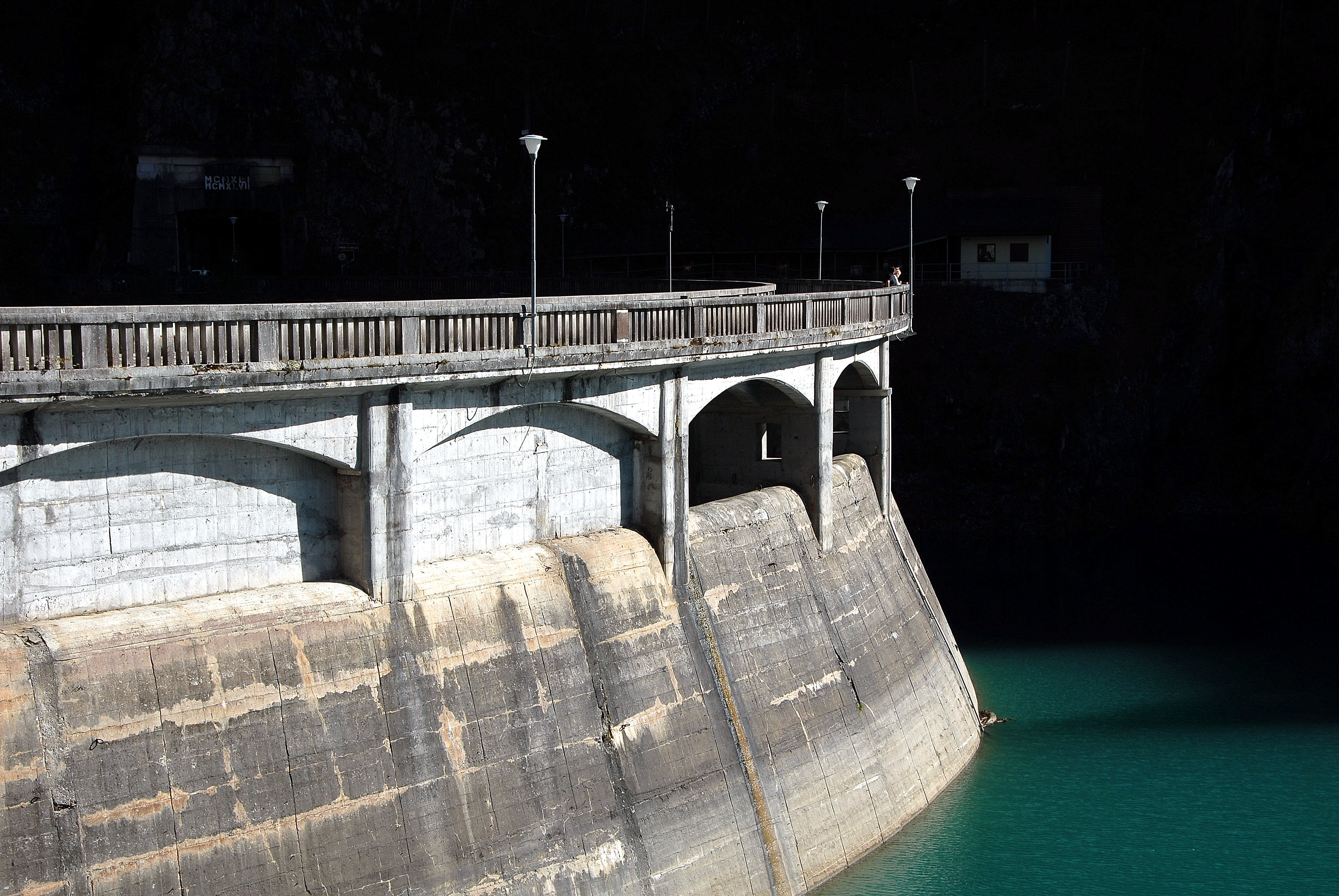 Dam of the Sauris reservoir lake in the community Sauris, region Friuli Venezia-Giulia, Italy